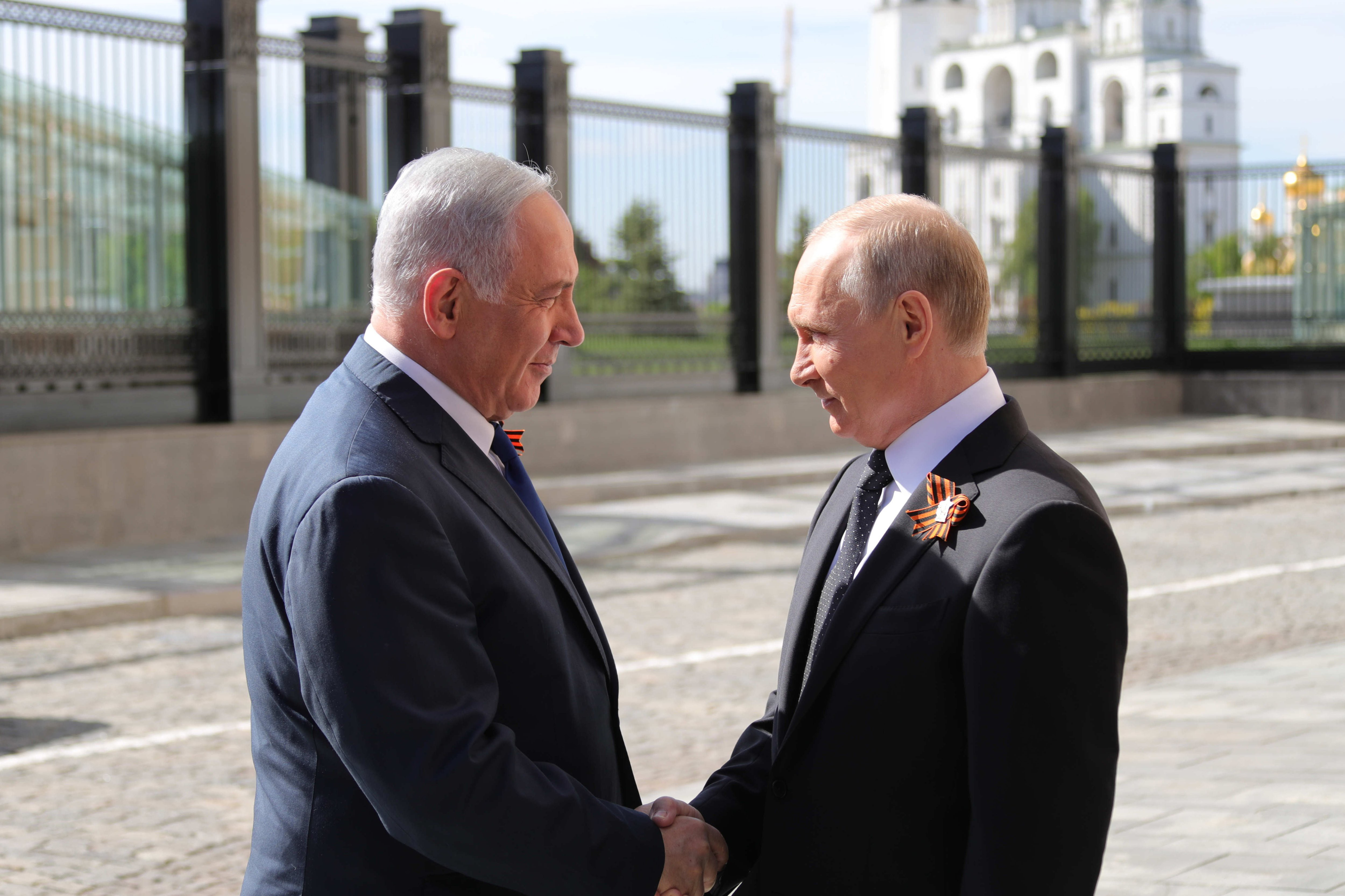 2018 Moscow Victory Day Parade